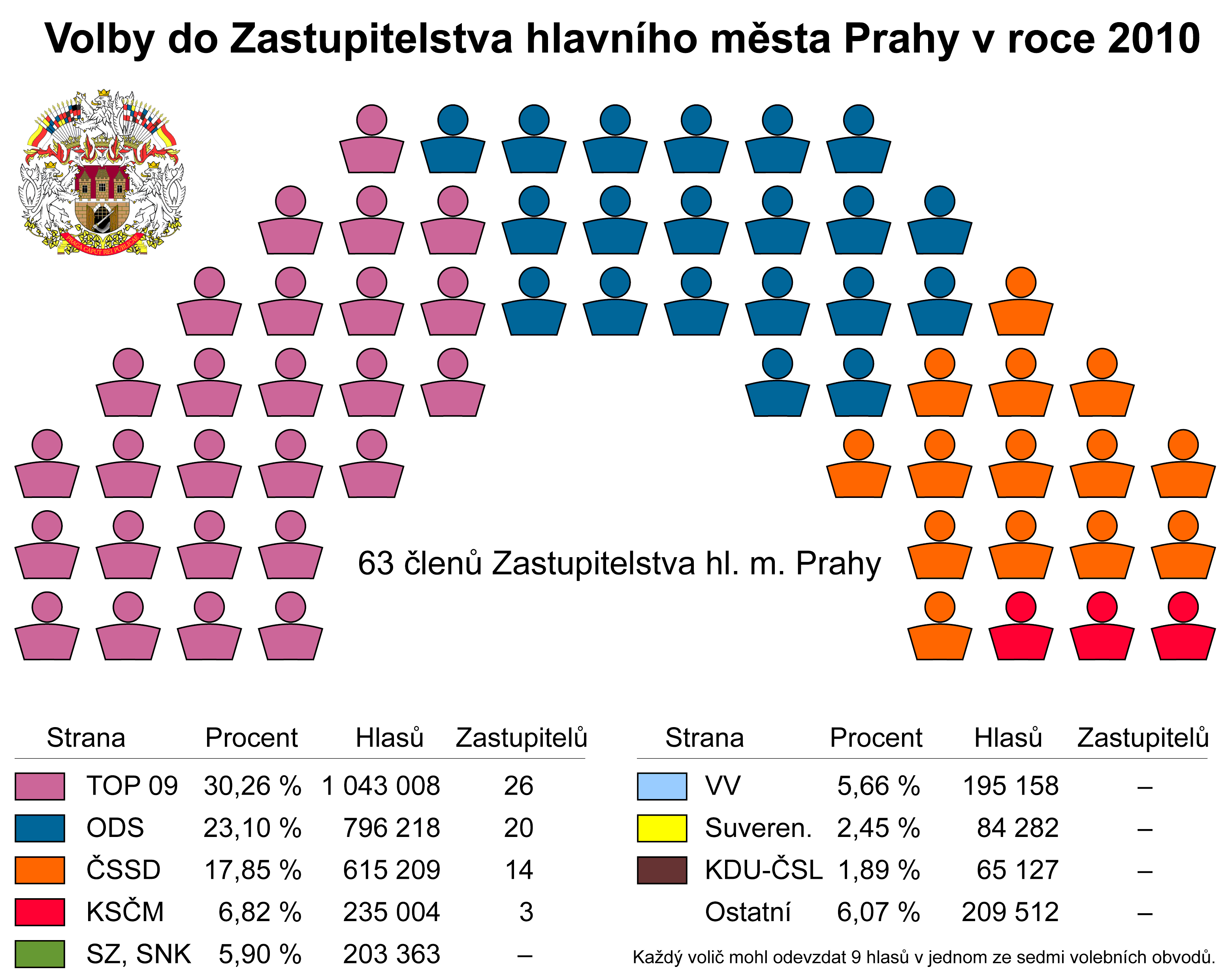 Results of 2010 municipal elections in Prague